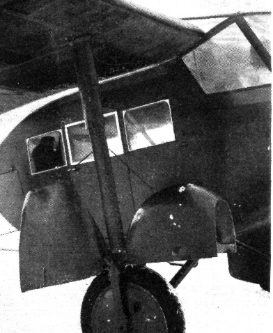 PWS-54, Polish 3 seat transport aircraft, 1933 - wheel fairing detail